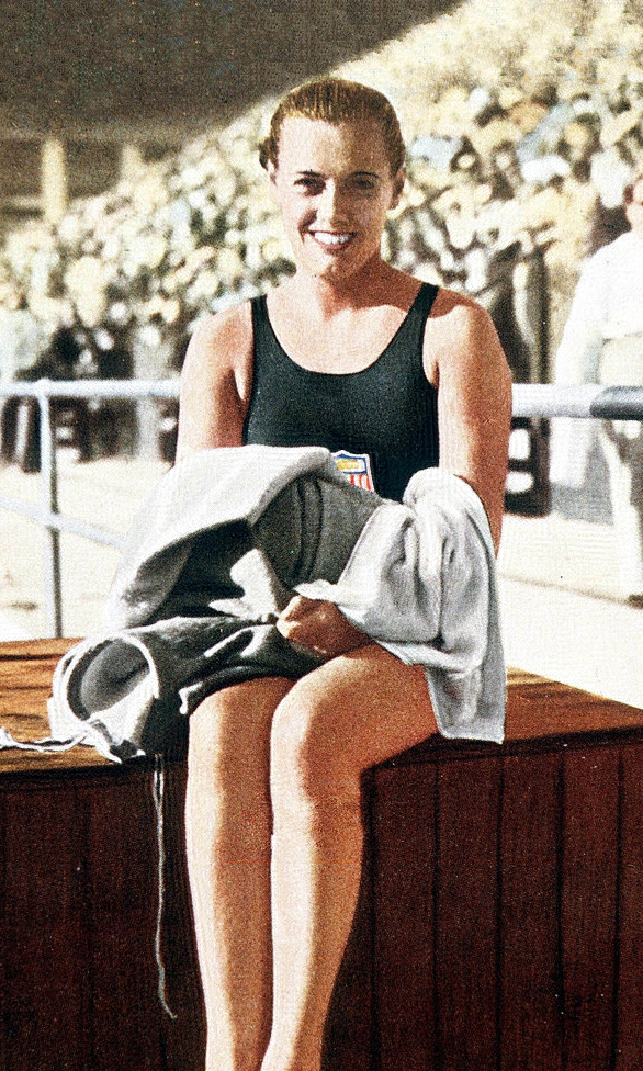 Olympic Games, Los Angeles, USA, Swimming, USA's Eleanor Holm who won the gold medal in the Women's 100 Metres Backstroke event